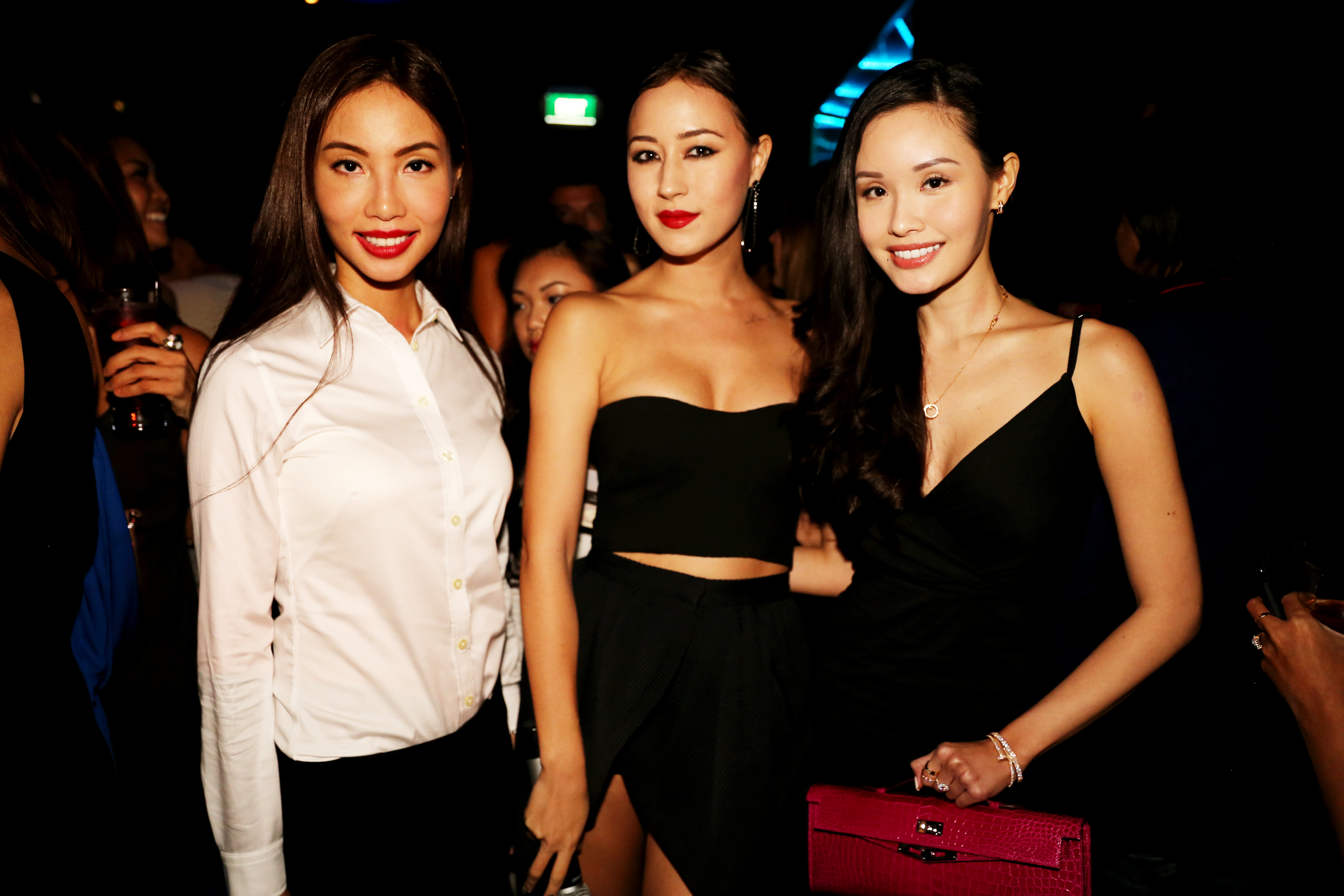 Gnossem's exclusive LARUICCI Singapore launch event on November 20th 2014, in collaboration with Min-Li Tan / MAH capsule launch. L to R: Lynn Tan (left), Lisa Crosswhite (centre) and Rachel Kum (right)